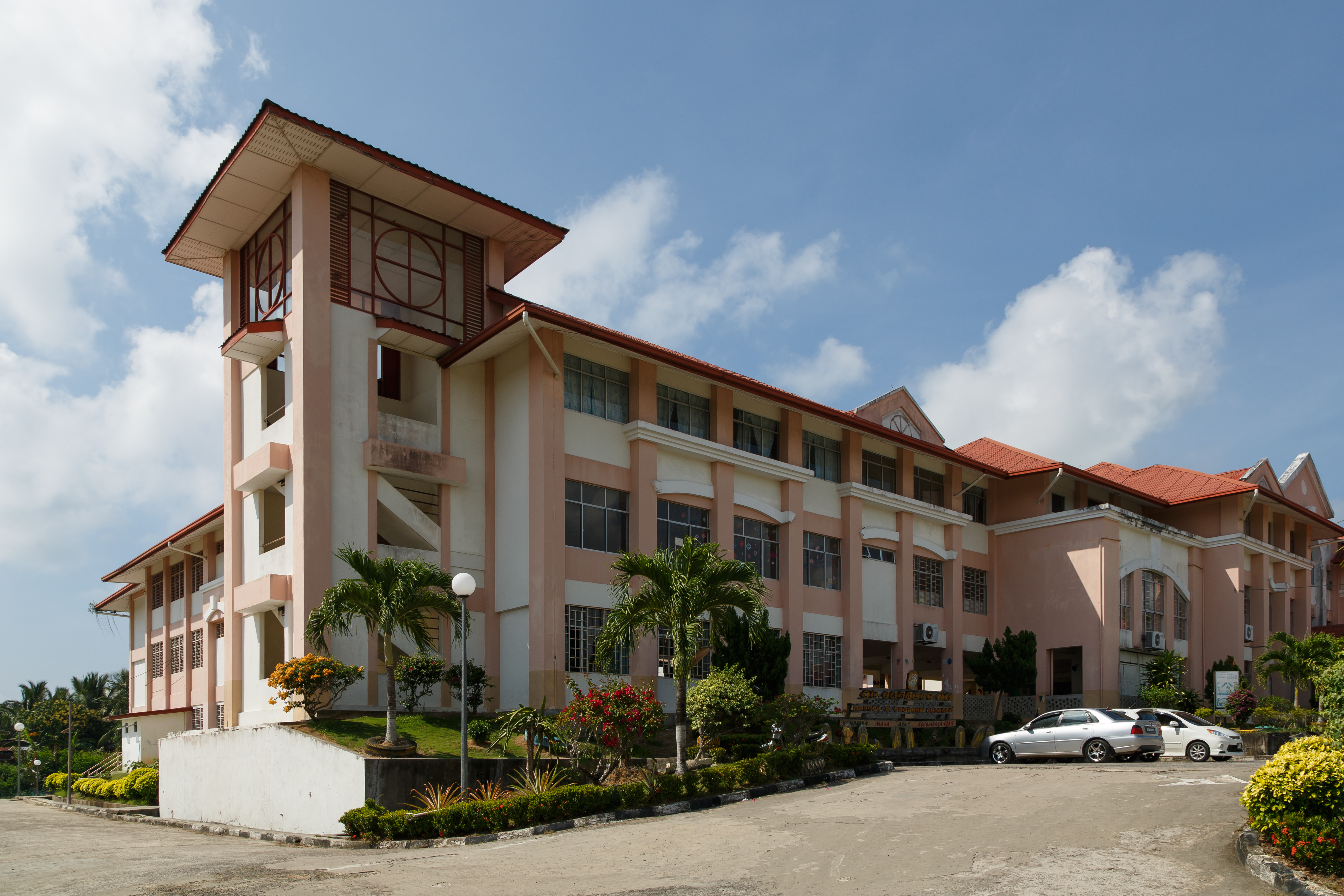 Bandar Sahabat, Sabah: Sekolah Kebangsaan Sahabat 16, a primary school in Sabah